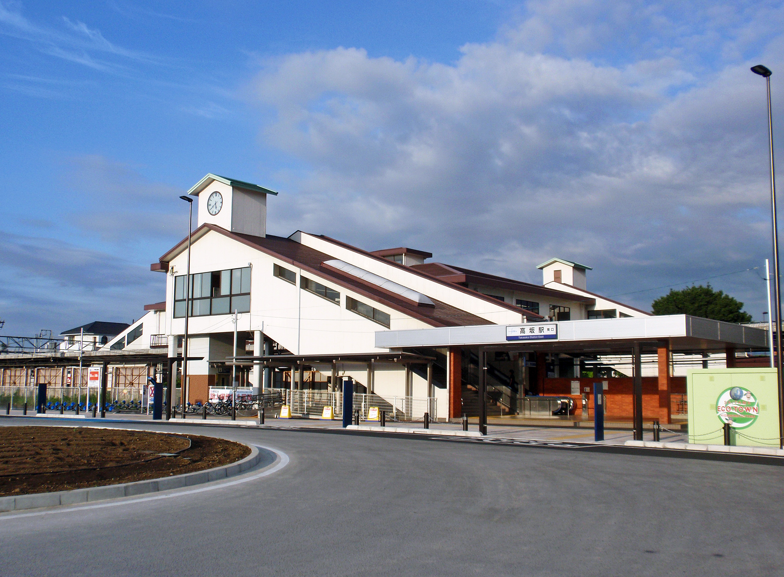 East entrance of Takasaka Station on the Tobu Tojo Line, in Higashimatsuyama, Saitama, Japan